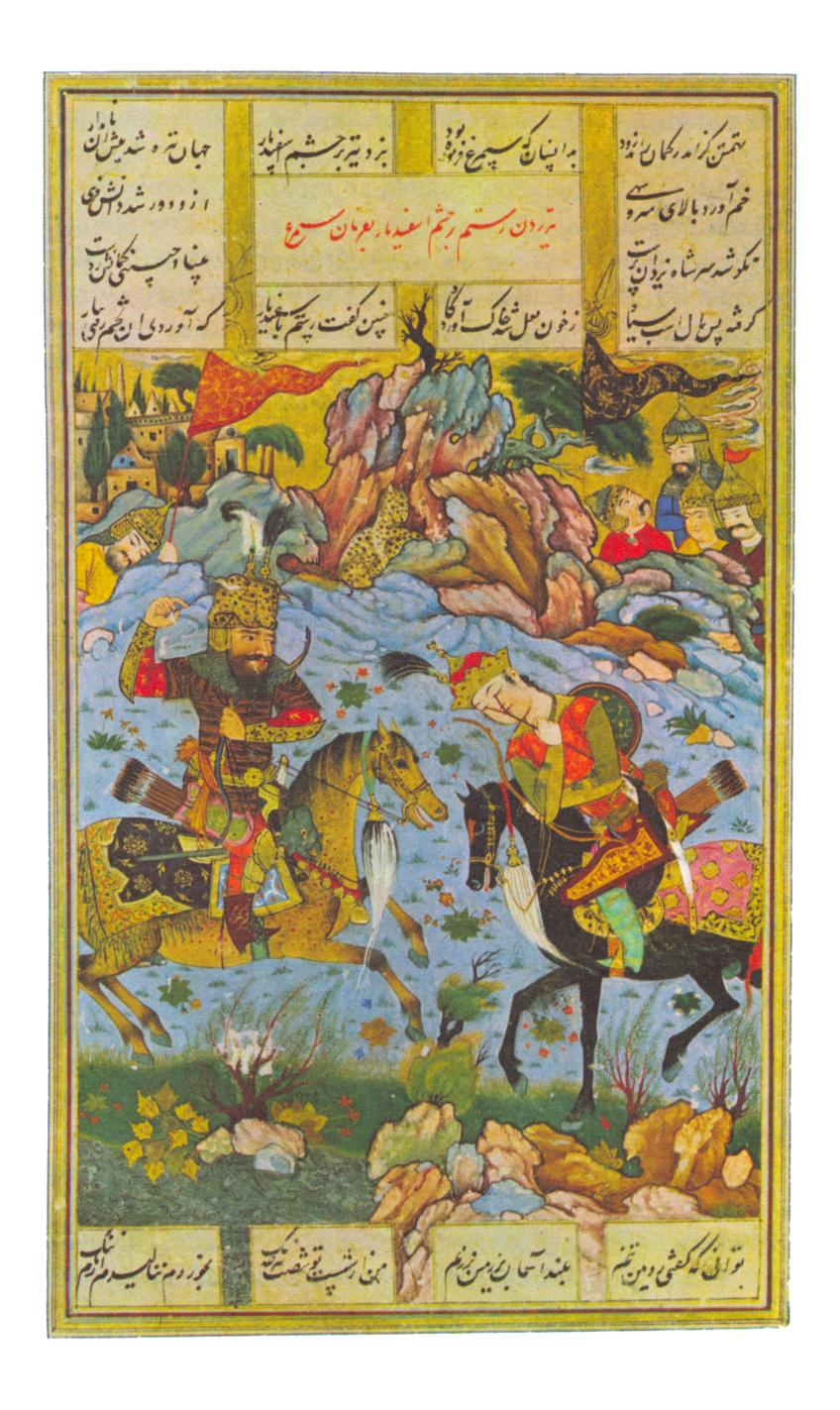 Scene from Shahnama: Rustam shoots Isfandiyar in the eyes with a double-pointed arrow, from manuscript Ms. or. fol. 4251, Berlin State Library